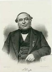 Søren Sørensen (1801-1892), Danish educator and politician, MP